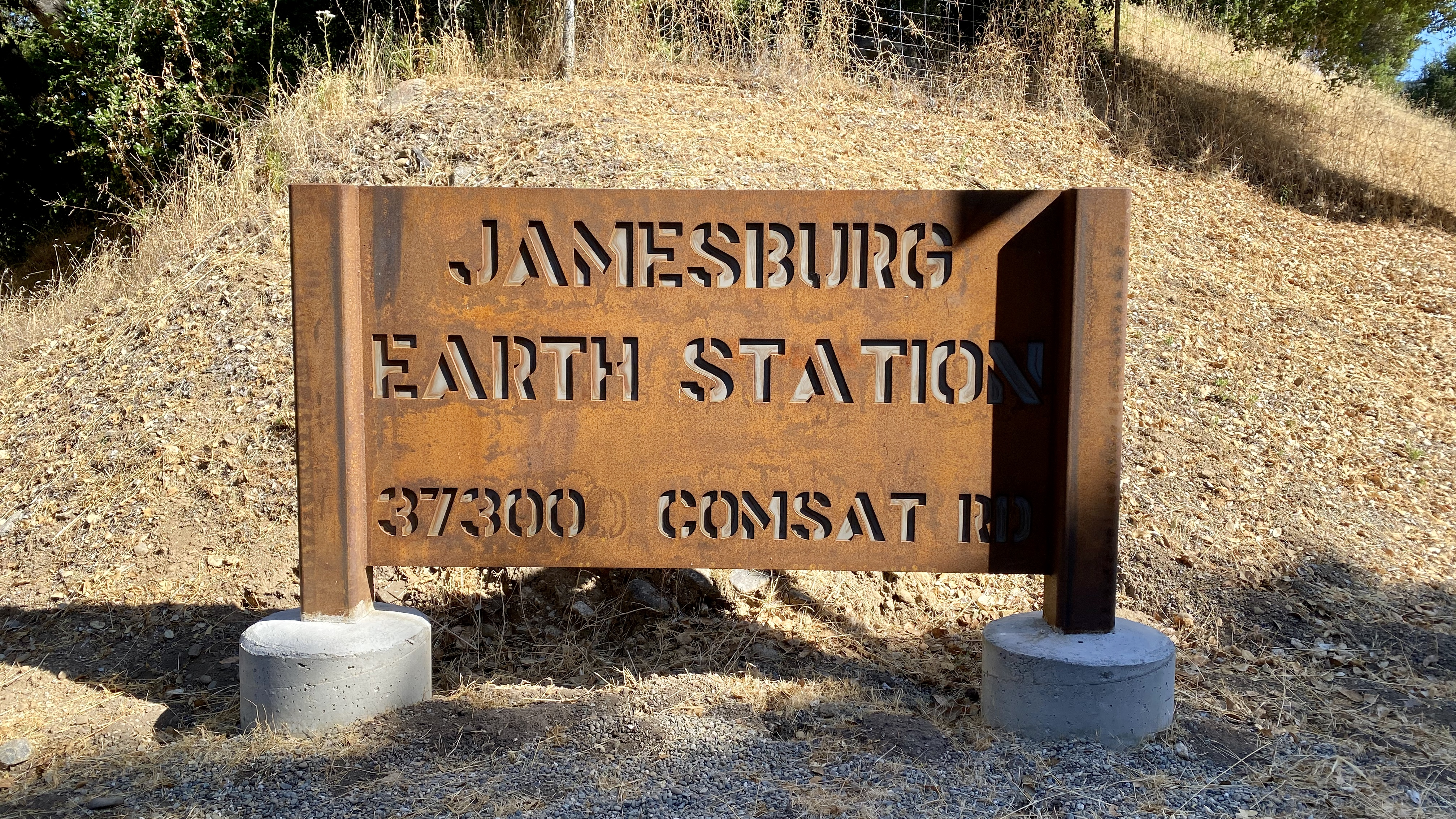 Picture of the sign at the locked entrance gate to the Jamesburg Earth Station.